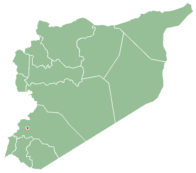 Based on Syrnumbered.PNG by User:Yuber kyle hi kyle